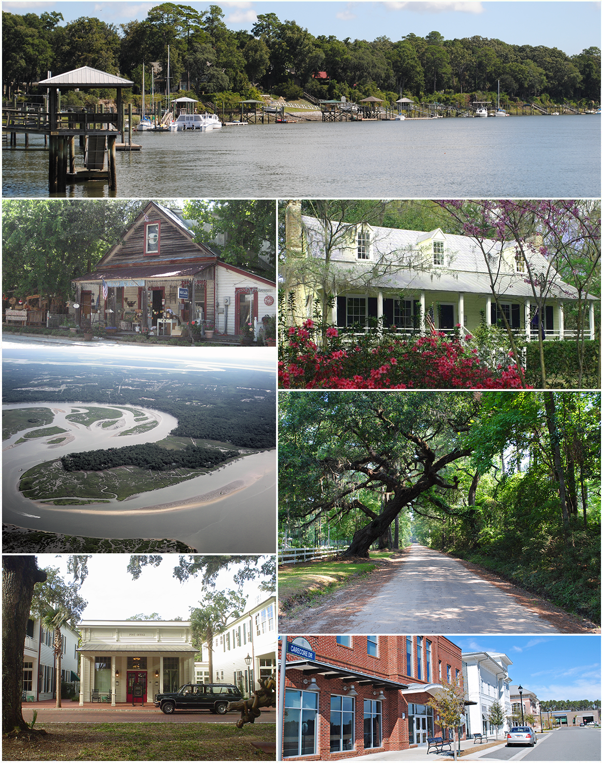 Montage of Bluffton Pictures, based on the New York City 2011 montage